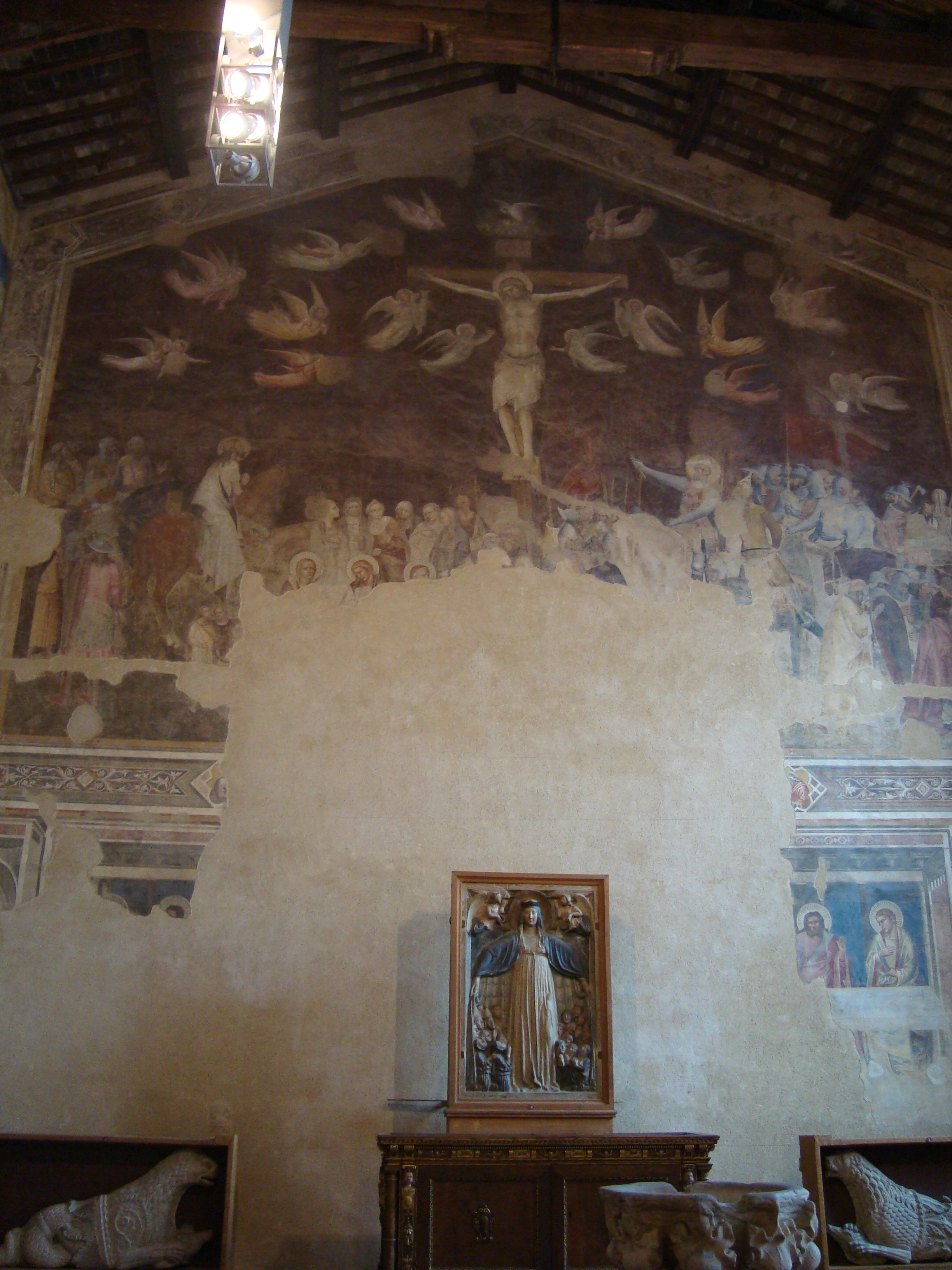 foreground: Tuscan sculptor - Our Lady of Mercy